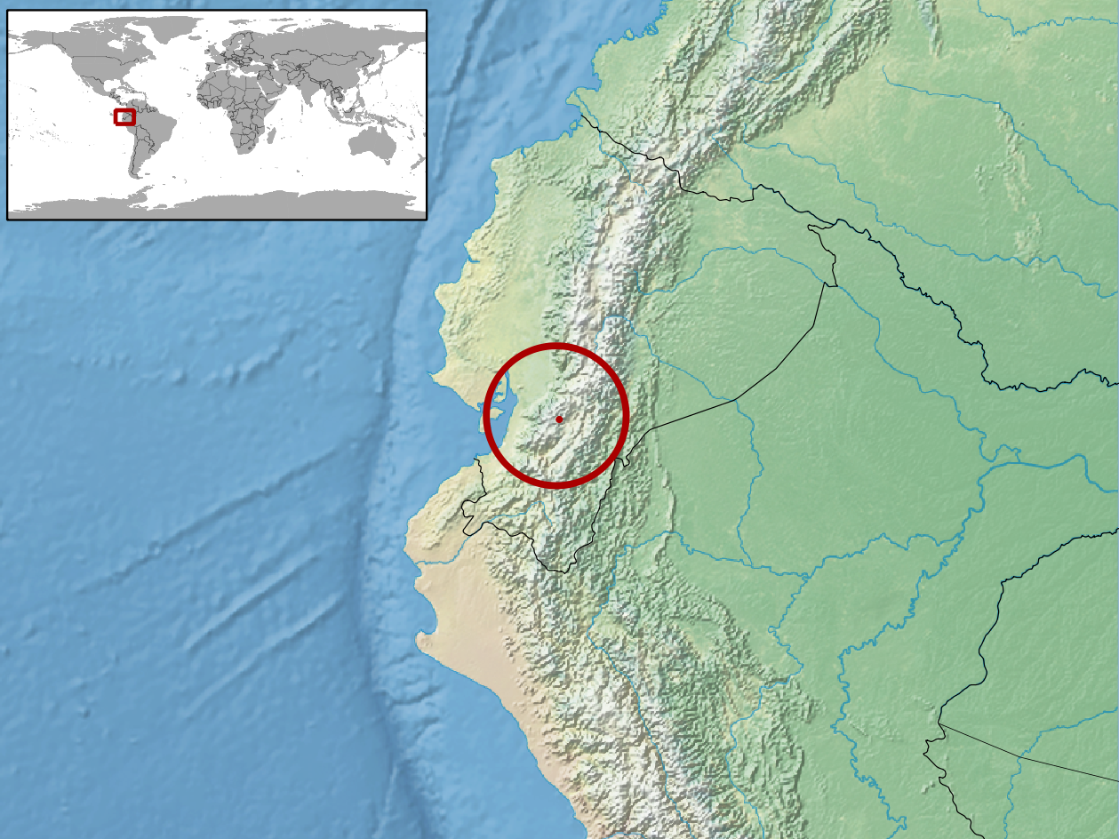 geographic distribution of Atelopus exiguus. This species is known from the type locality (Ecuador, Provincia Azuay, Zurucuchu (= Laguna Llaviuco))